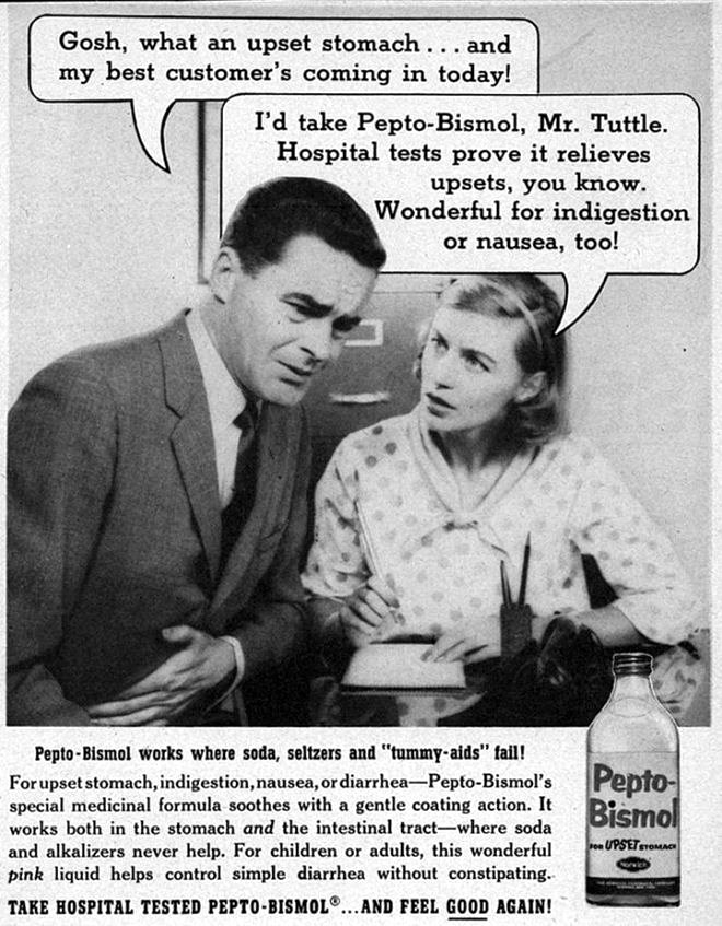 1957 ad for Pepto-Bismol. Converted to greyscale and contrast adjusted with GIMP.